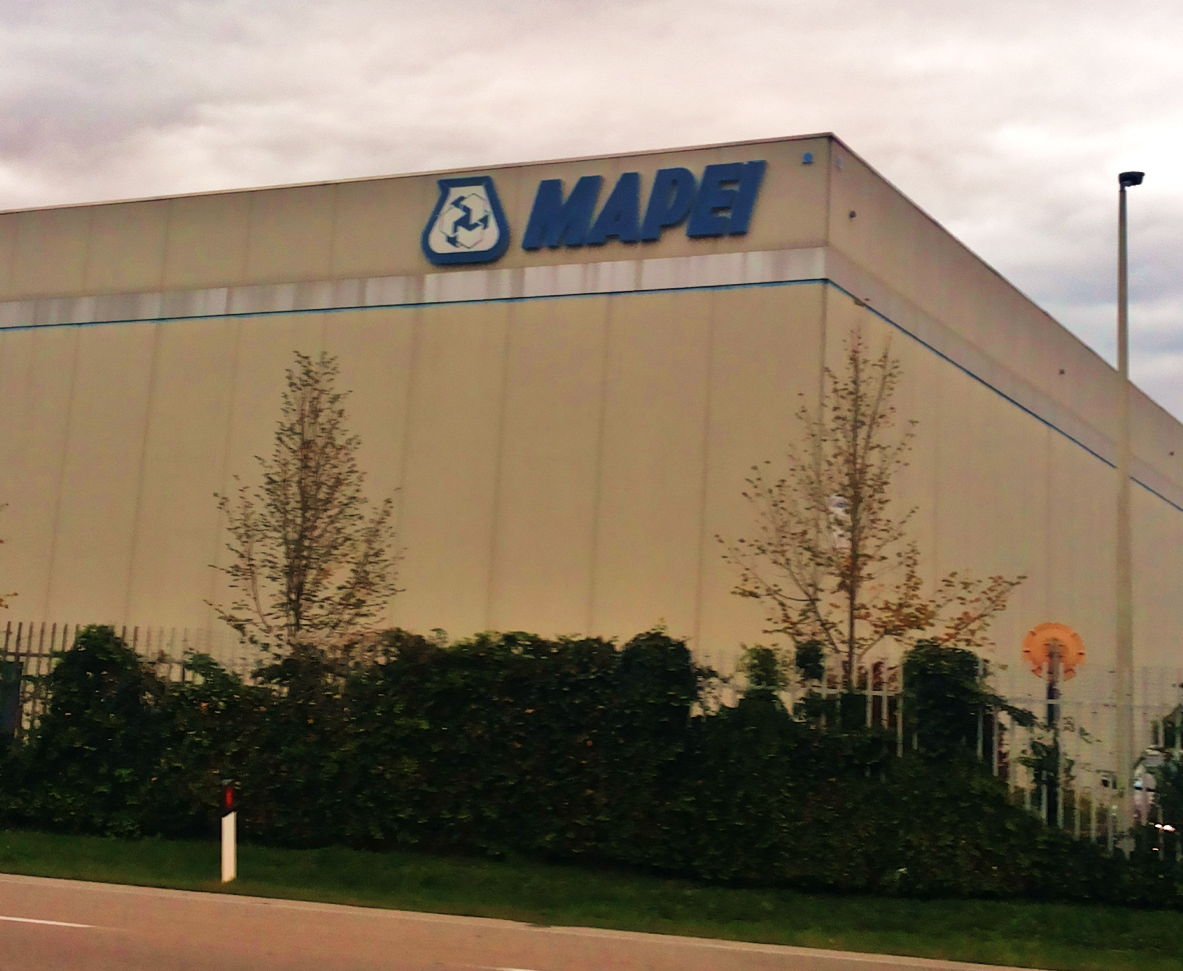 Mapei factory in Mediglia, Italy